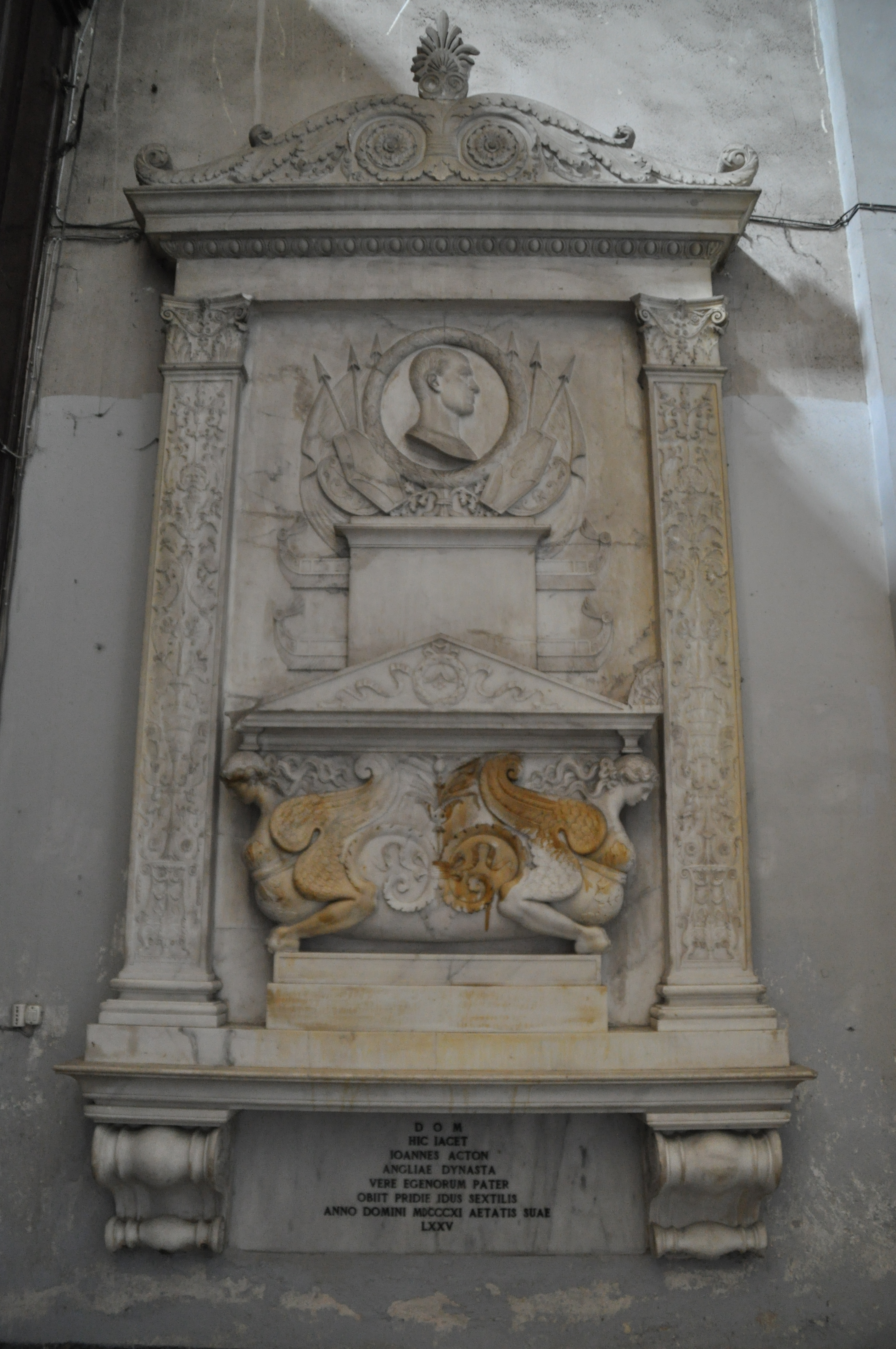 Grave of Sir John Francis Edward Acton VI (Besançon, June 3rd, 1736 – Palermo, August 12th, 1811). Palermo, Church of S. Ninfa dei Padri Crociferi.